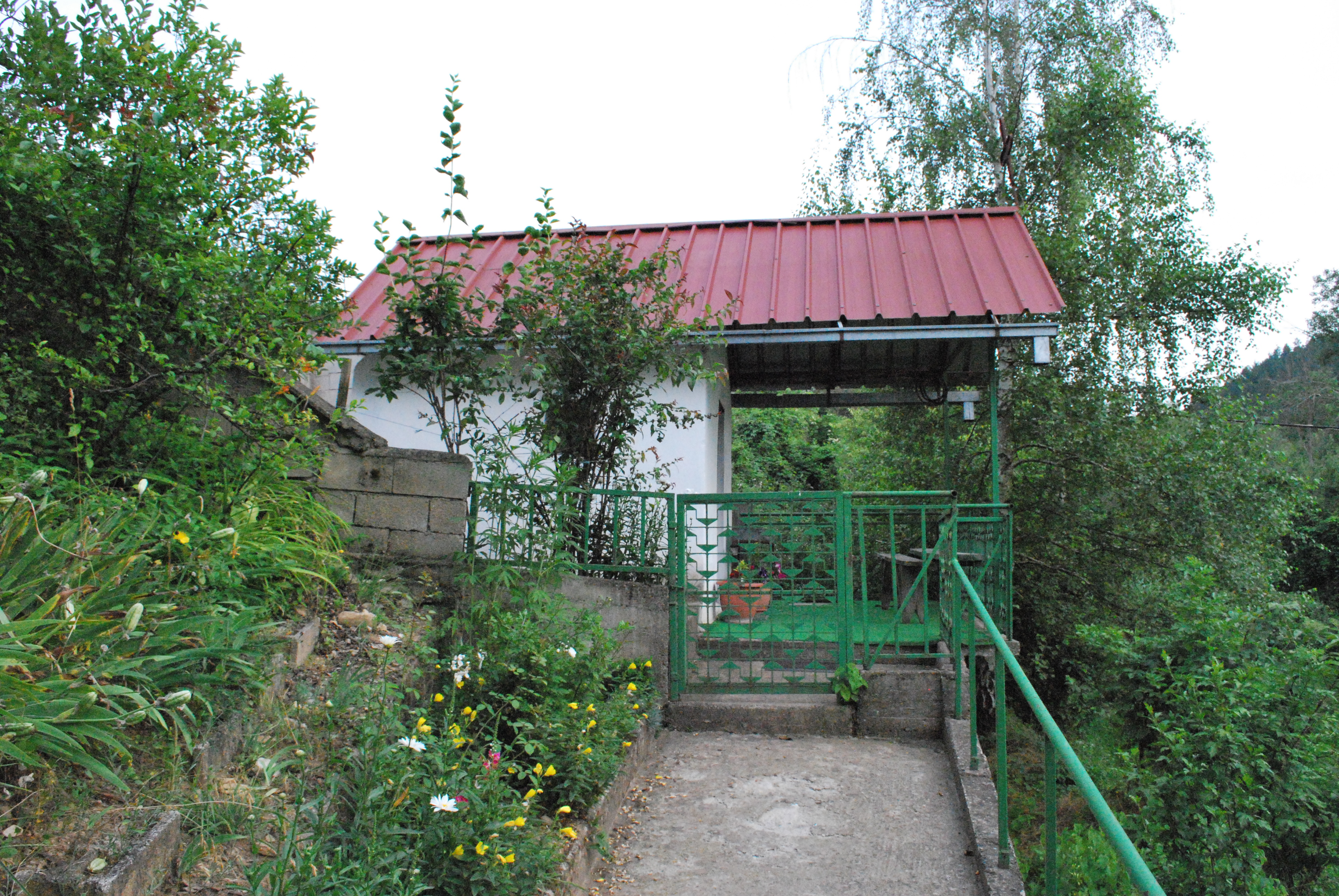 St. Petka Church in Miletino, Macedonia